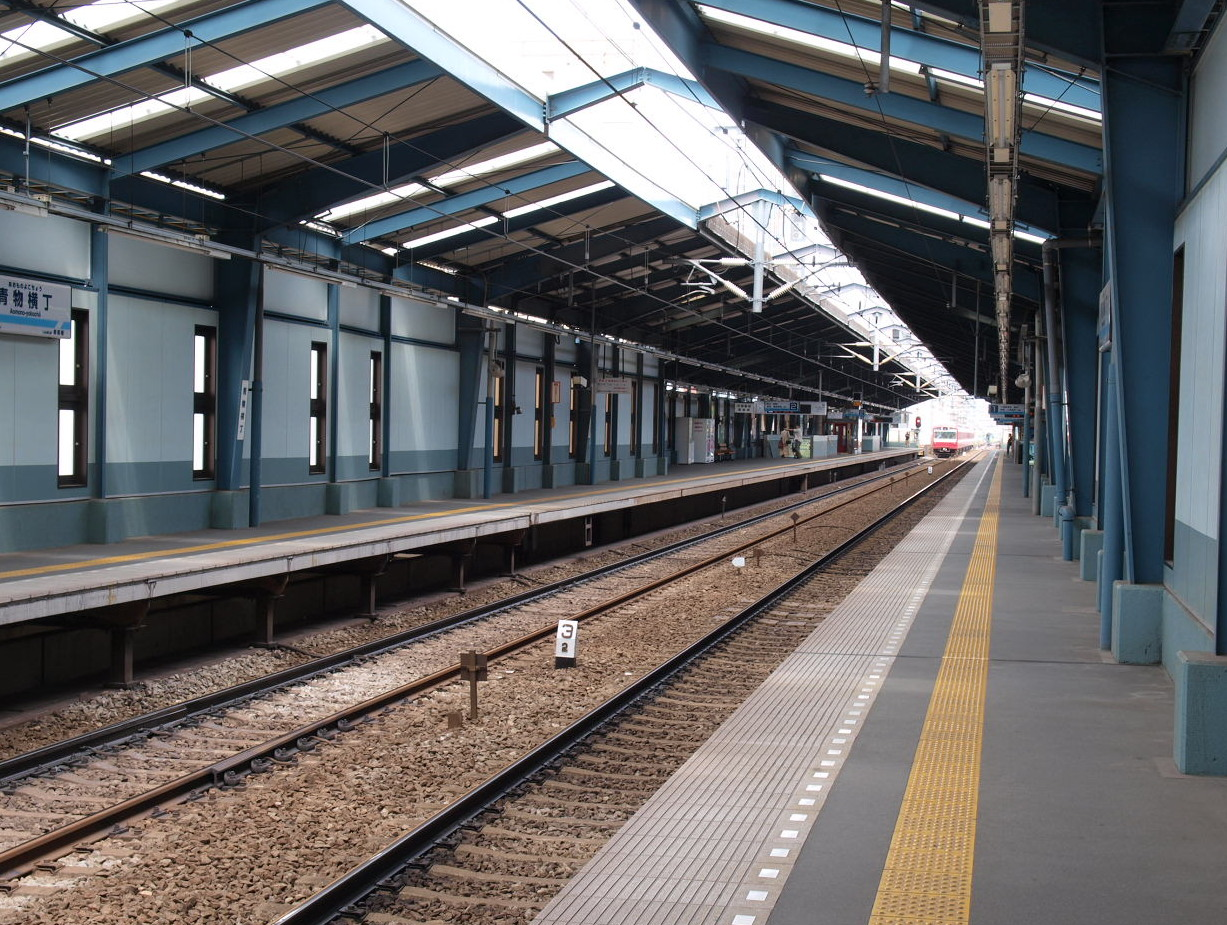 Aomono Yokocho staion platforms